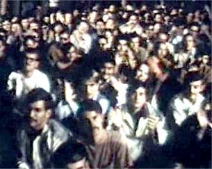 Okinawa GI Audience at the FTA (Fuck The Army) Show 1971.